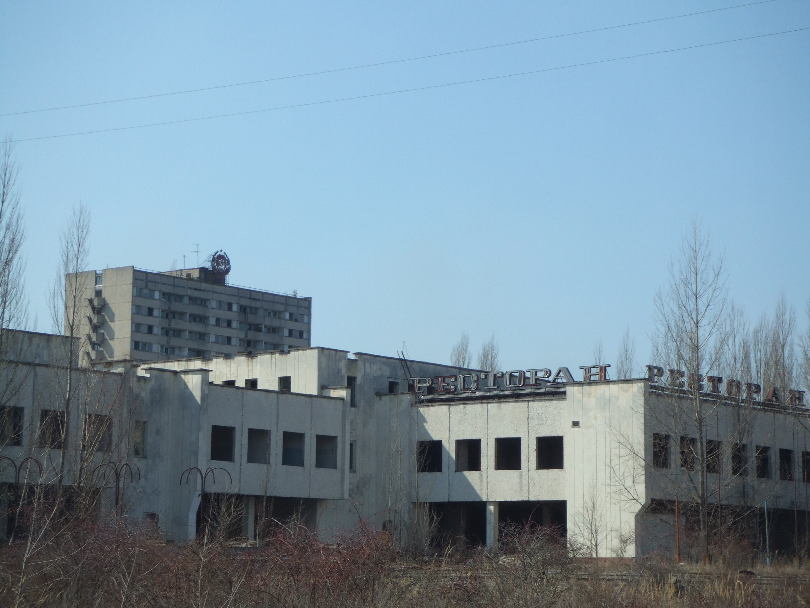 Abandoned restaurant in Pripyat.